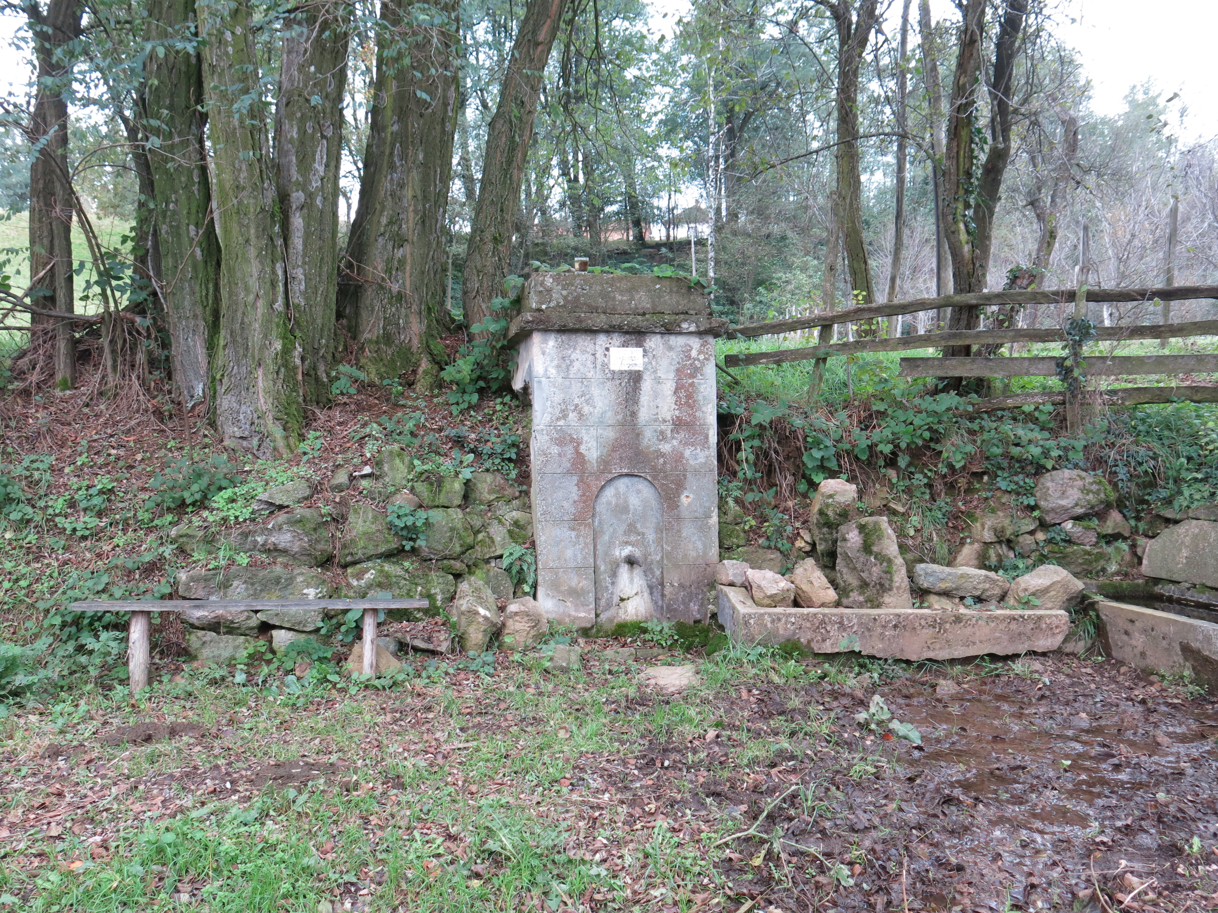 Nakučani, Water fountain